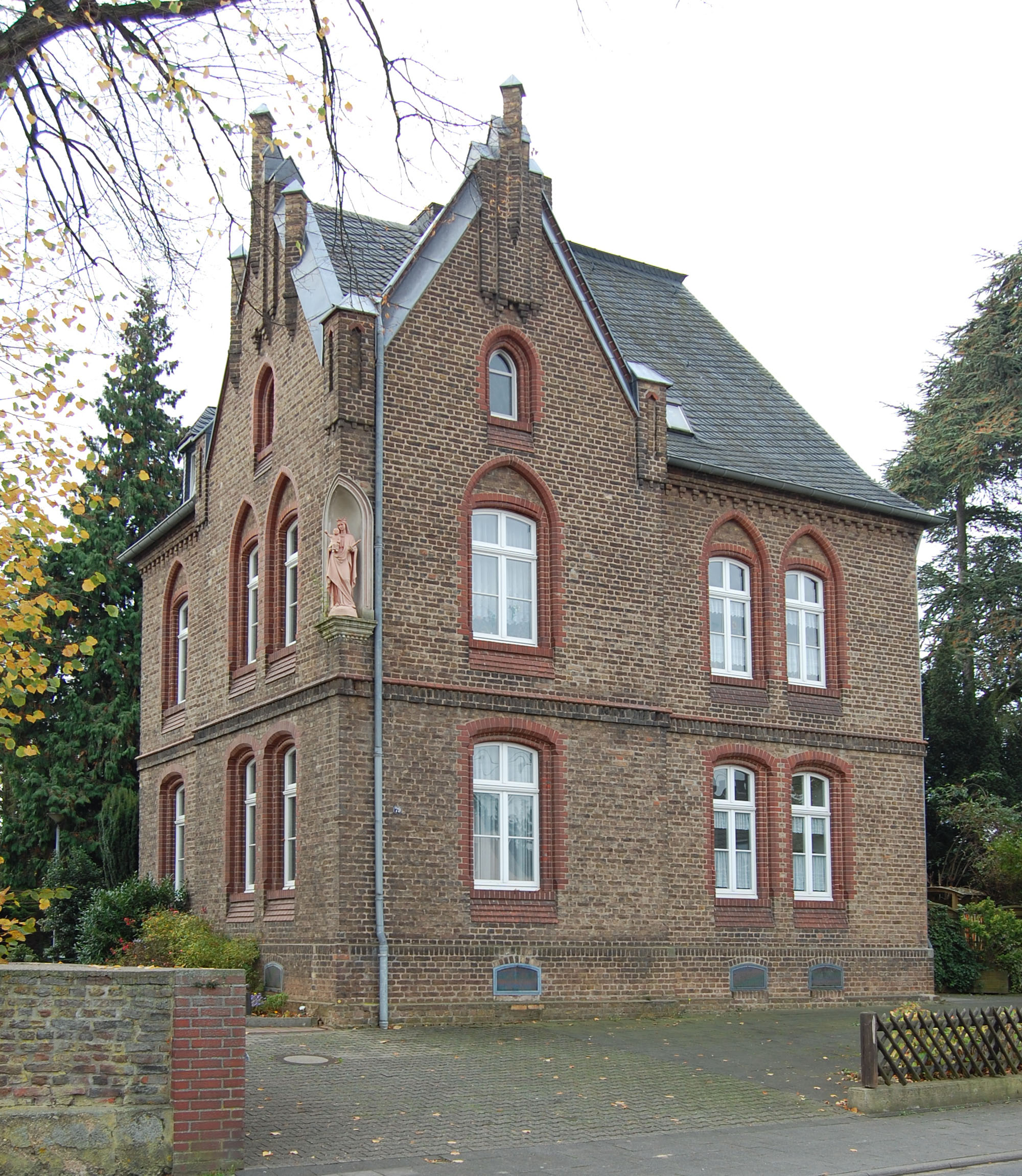 Picture from the village Dirmerzheim, Erftstadt, Germany